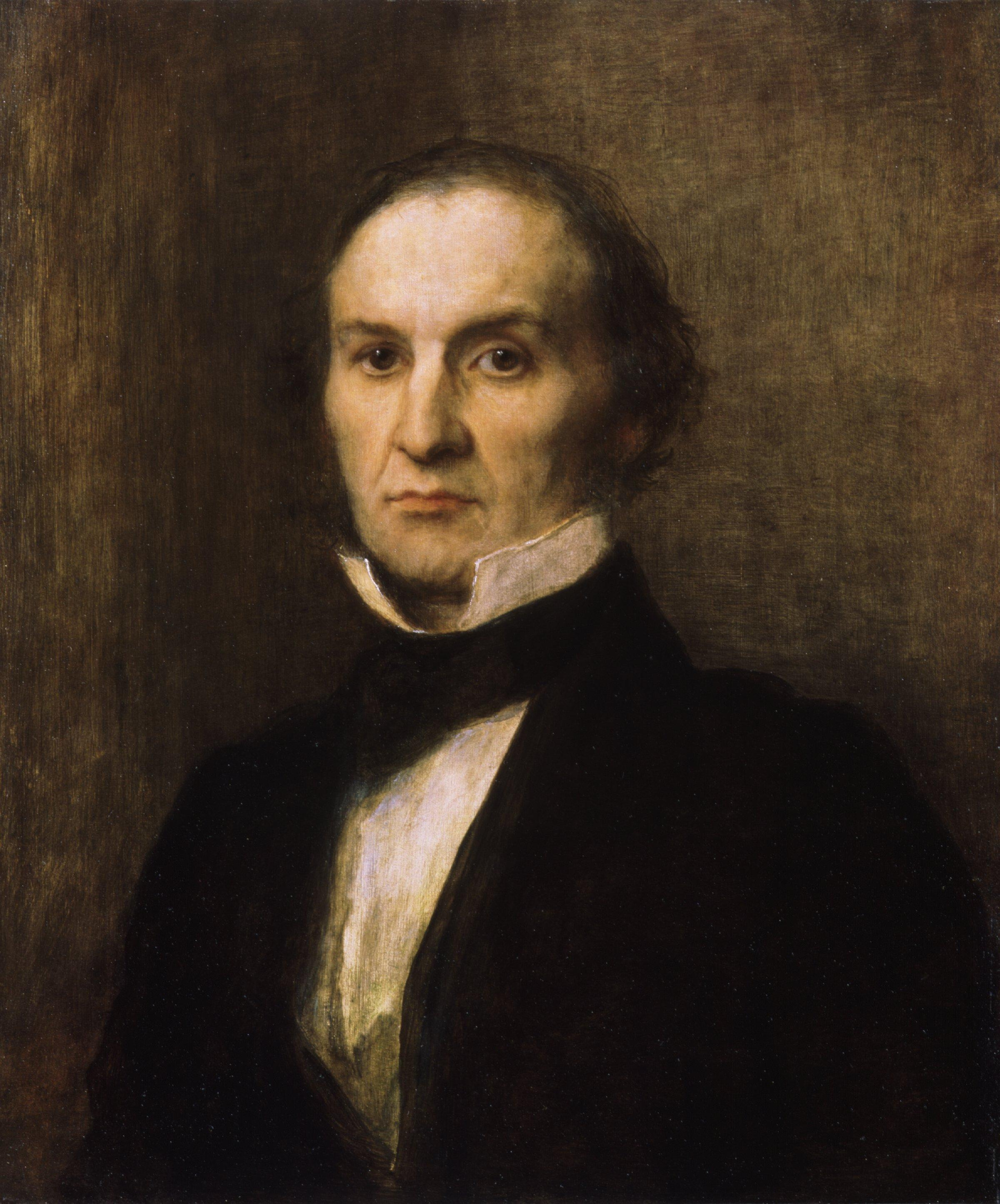 William Ewart Gladstone, by George Frederic Watts (died 1904), given to the National Portrait Gallery, London in 1898. All images in this batch have been confirmed as author died before 1939 according to the official death date listed by the NPG.